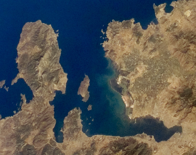 Turkey Western, Lesbos and Dardanelles.